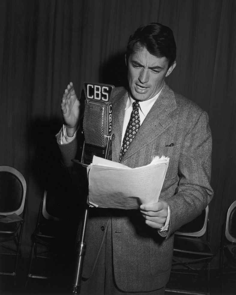 Gregory Peck during a performance on CBS Radio in 1940s.